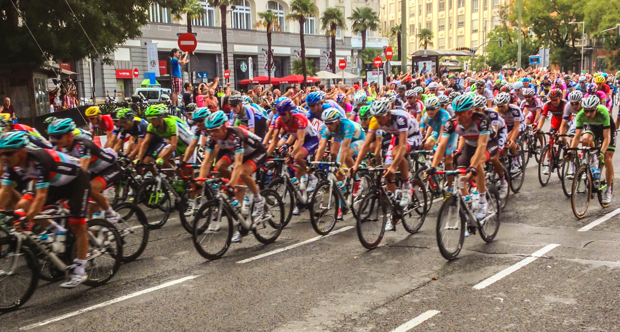 The 21st and final stage of the 2013 Vuelta a España (Tour of Spain) bicycle race in central Madrid on September 15, 2013. Taken by Matt Popovich and released under a CC-BY-3.0 license.